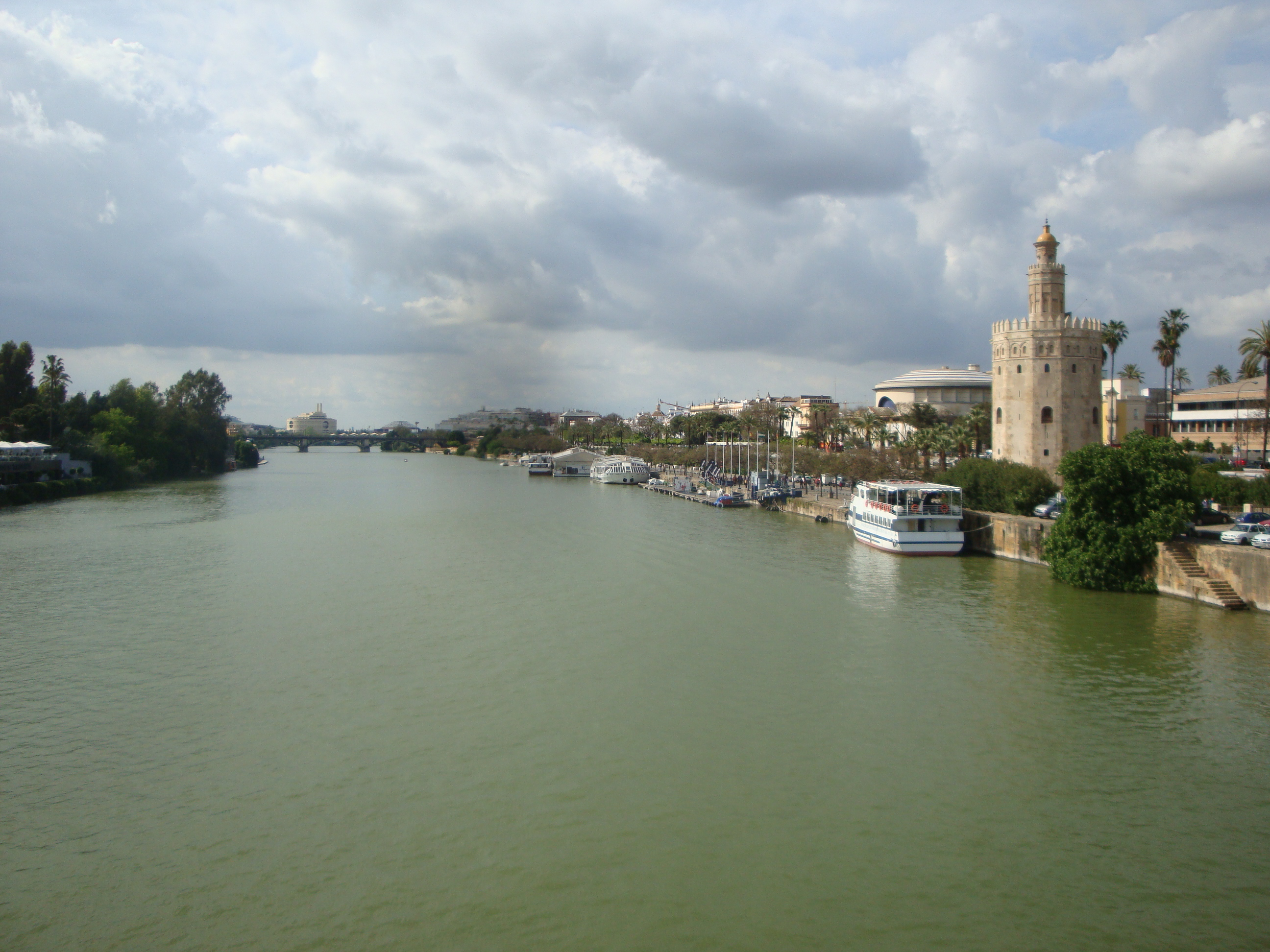 Guadalquivir River in Seville. Picture taken from the San Telmo Bridge. On the right: Torre del Oro and Maestranza Theater; background: Triana Bridge.